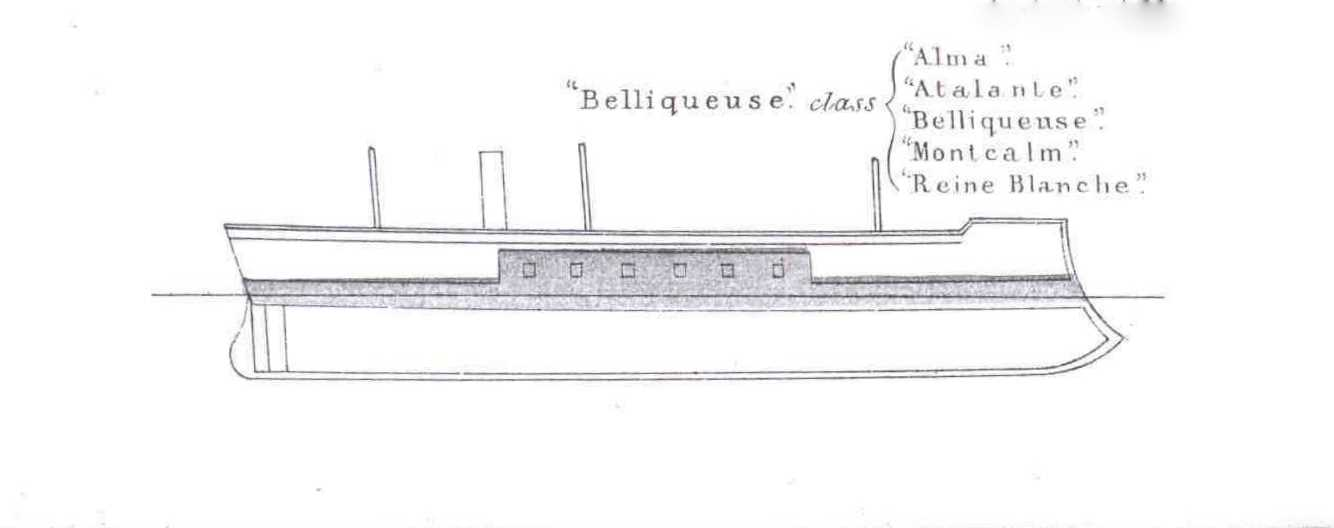 Brasseys version of the French Alma class ironclads, of which seven were built in the late 1860's. Note the funnel(s), placed behind the main-mast. This can not be verified from available photographs and models, which all show it(them) ahead of the main-mast.